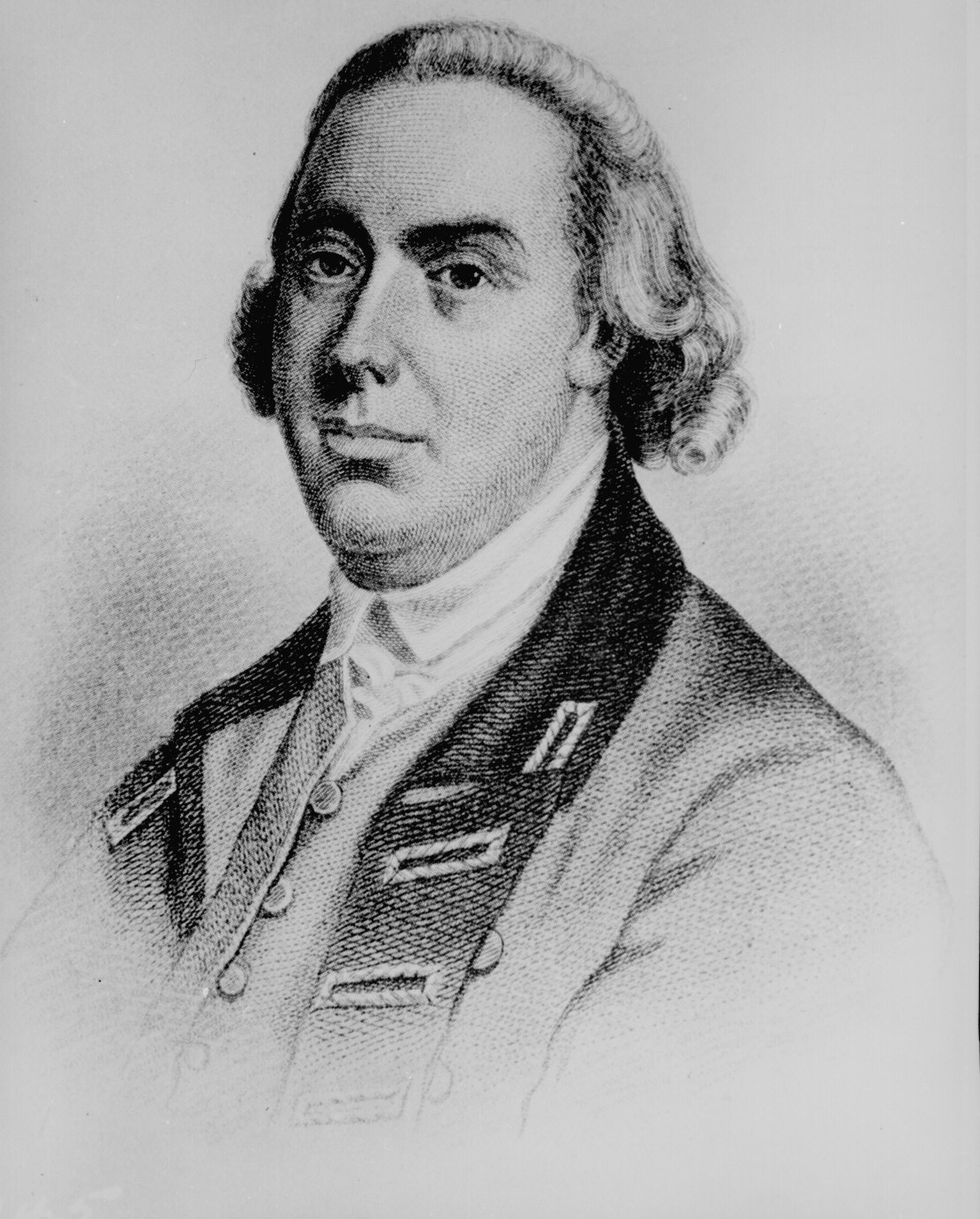 British General Thomas Gage. Engraving (bust).